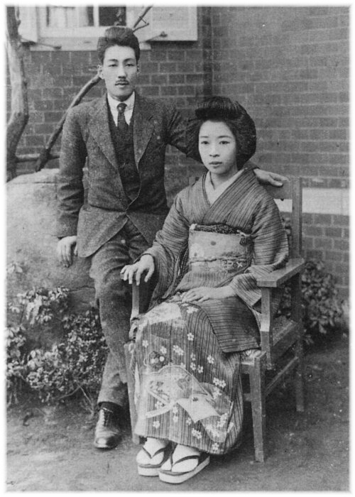 Japanese writer Mori Mari and husband Tamaki Yamada